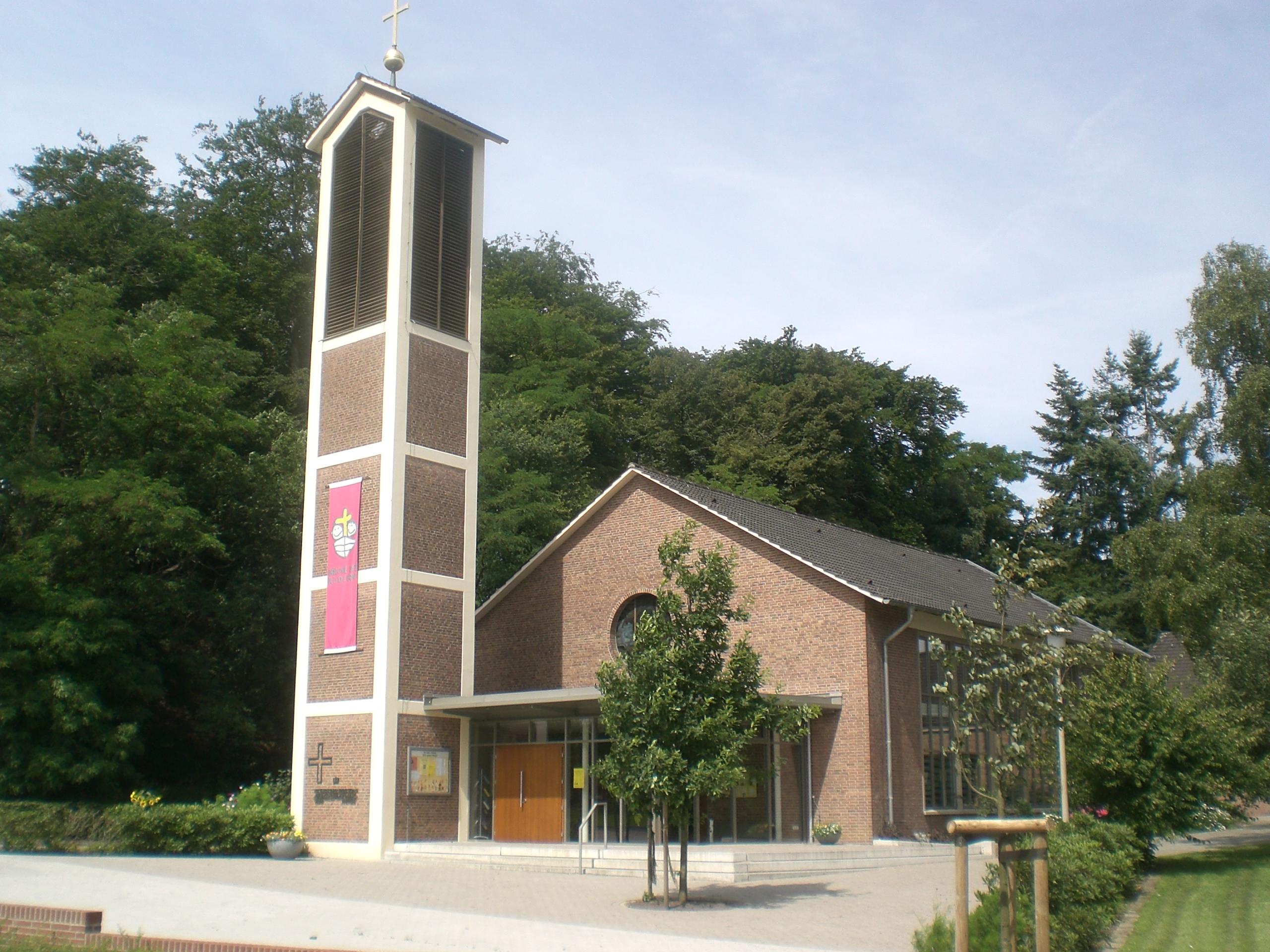 Lutheran church in Damme, Lower Saxony, Germany